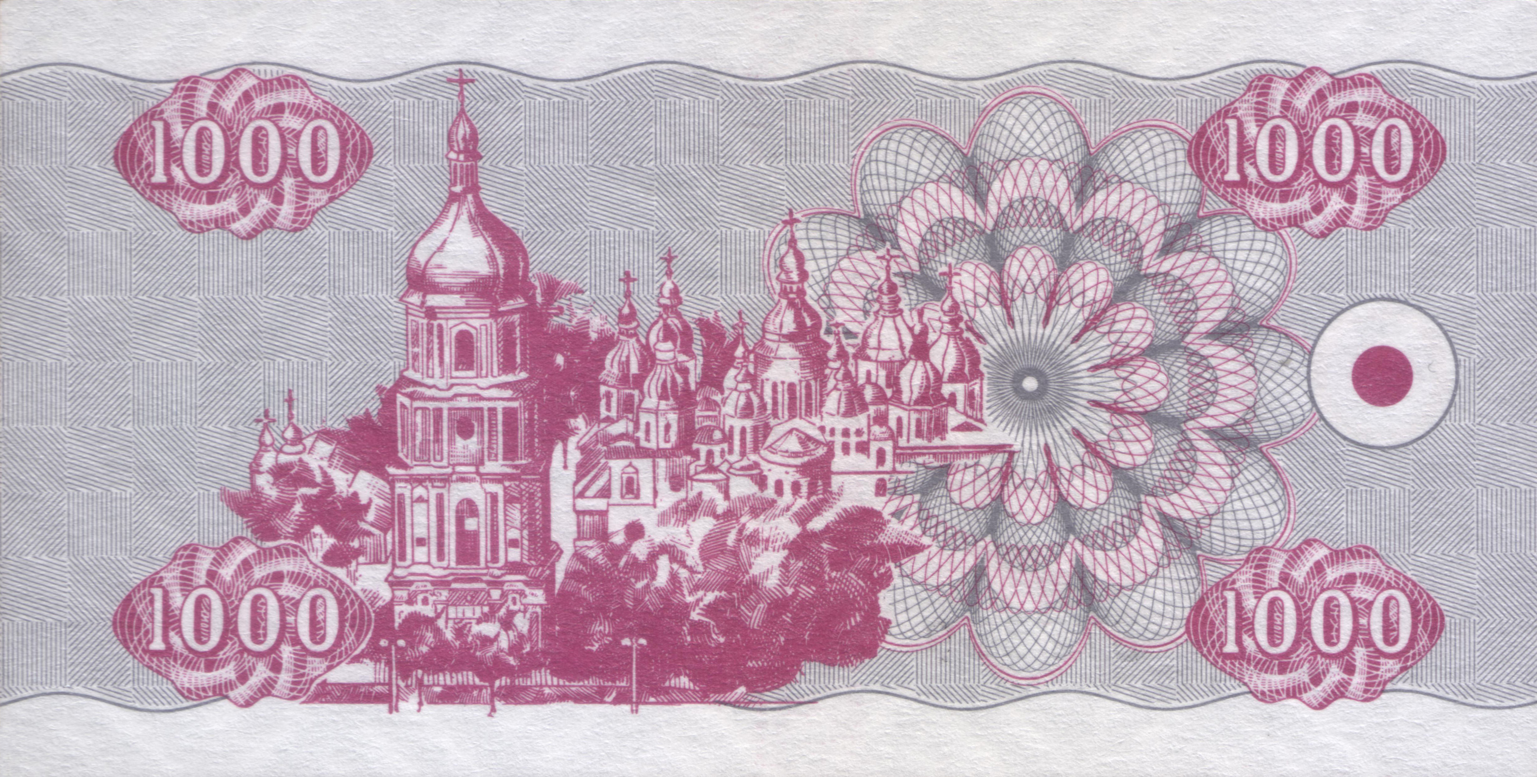 1000 karbovanets (1992)